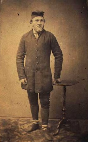 Hans Christopher Müller (1818-1897), Faroese politician, MP